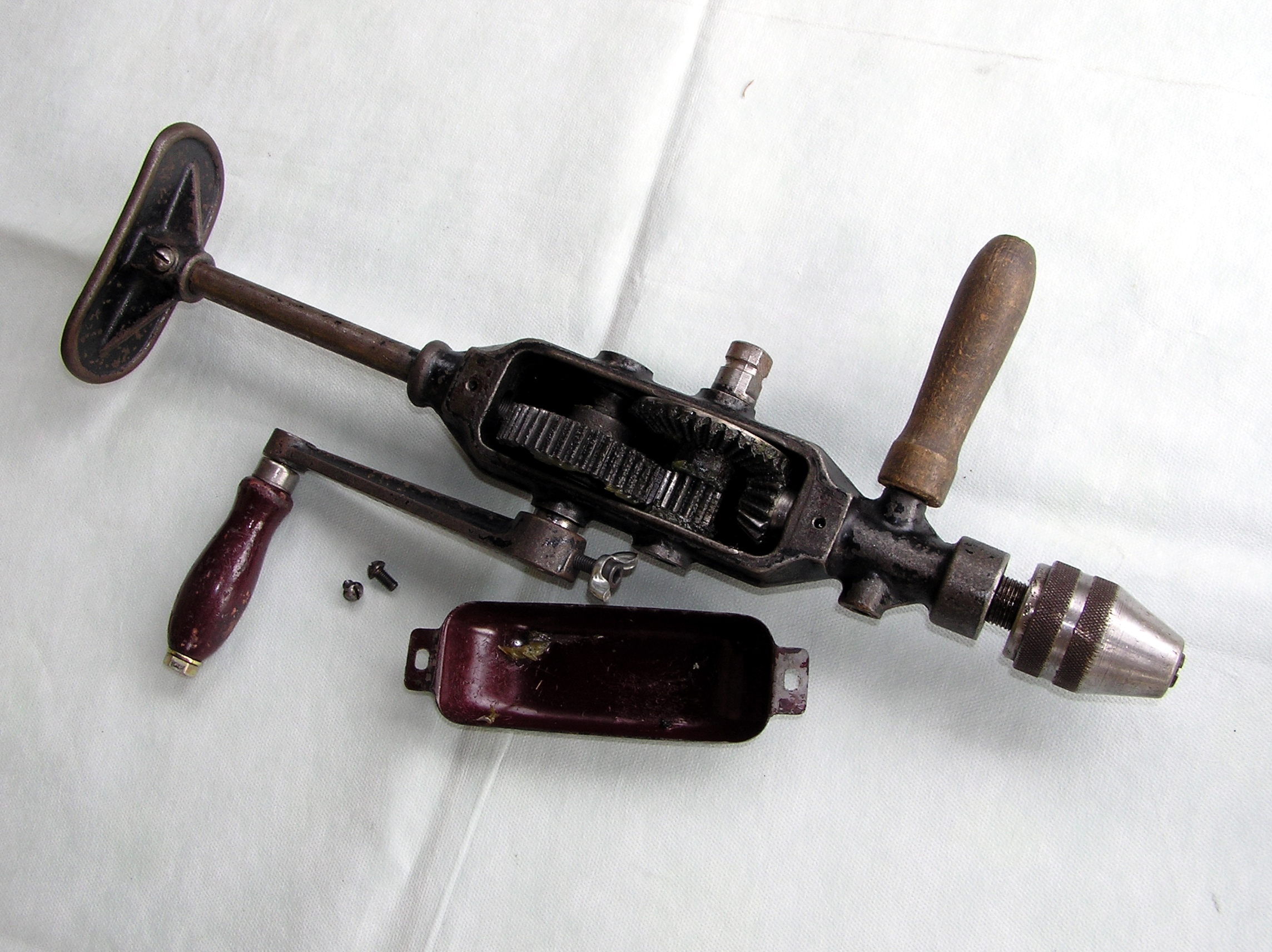 Manual drilling machine with two speeds